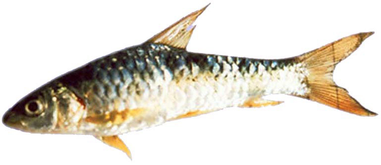 Tor khudree, a fresh water fish species from Adan river of Painganga basin from the Gadchiroli district of Maharashtra state India.